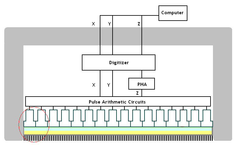 Diagram created by me using Windows Paint. This is a diagrammatic cross section through the head of a gamma camera, a medical imaging device.